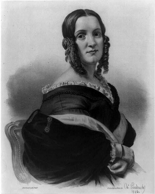 Angelica Van Buren Category:First Ladies of the United States